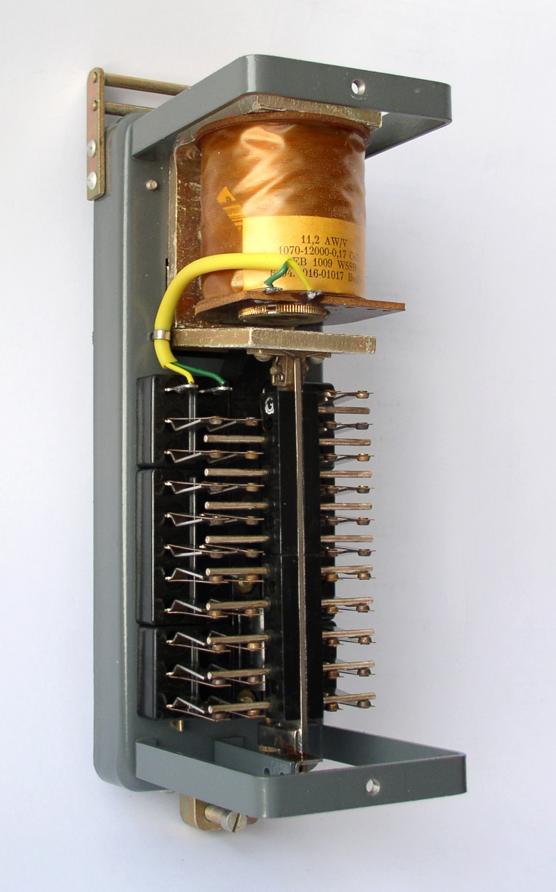 Relay for railway signalling, Manufacturer: WSSB